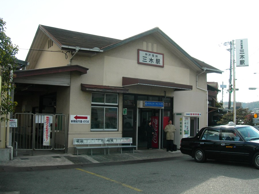 Kobe Electric Railway Miki Station